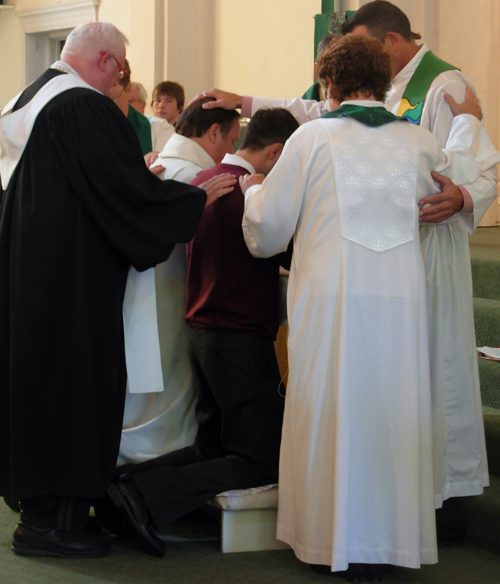 Affirmation of clergy ordination by the laying on of hands in the Metropolitan Community Church.